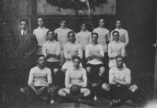 The association football team of Club Gimnasia y Esgrima de Buenos Aires, that played in the third division by then.